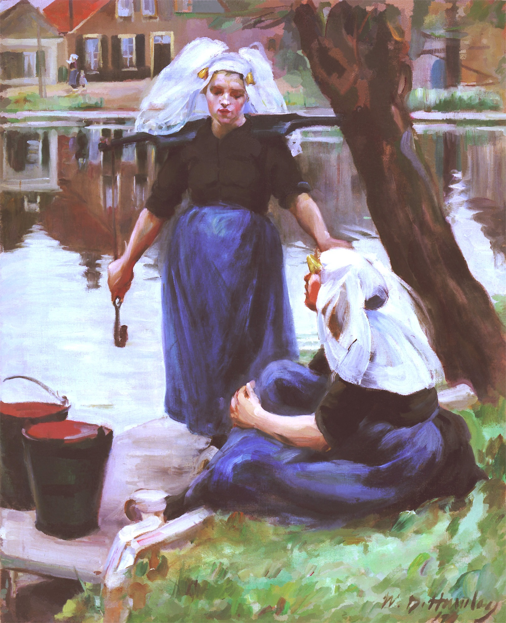 Twee vrouwen bij de rivier de Waal